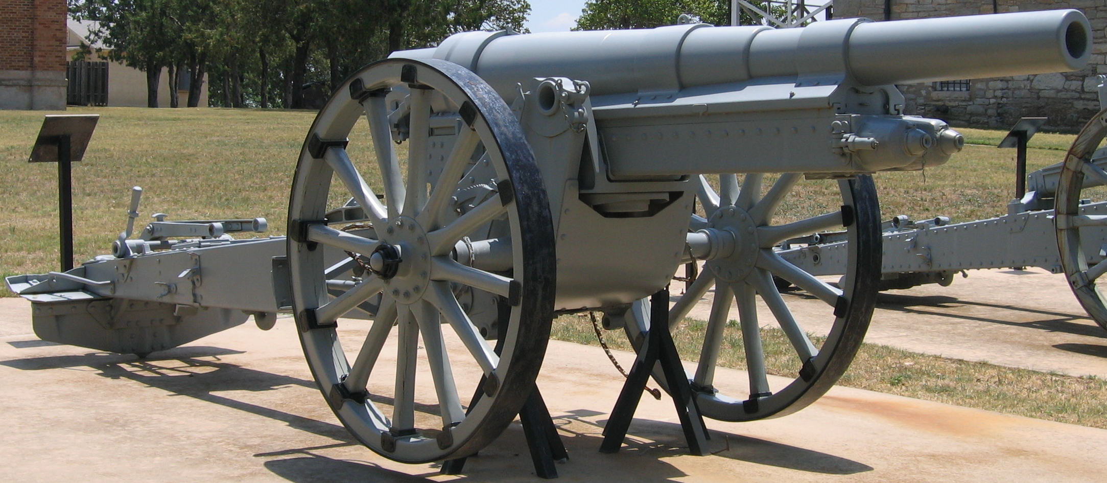 Front view of a 10 cm Kanone 04 of World War I at U.S. Army Field Artillery Museum, Ft. Sill, Oklahoma.